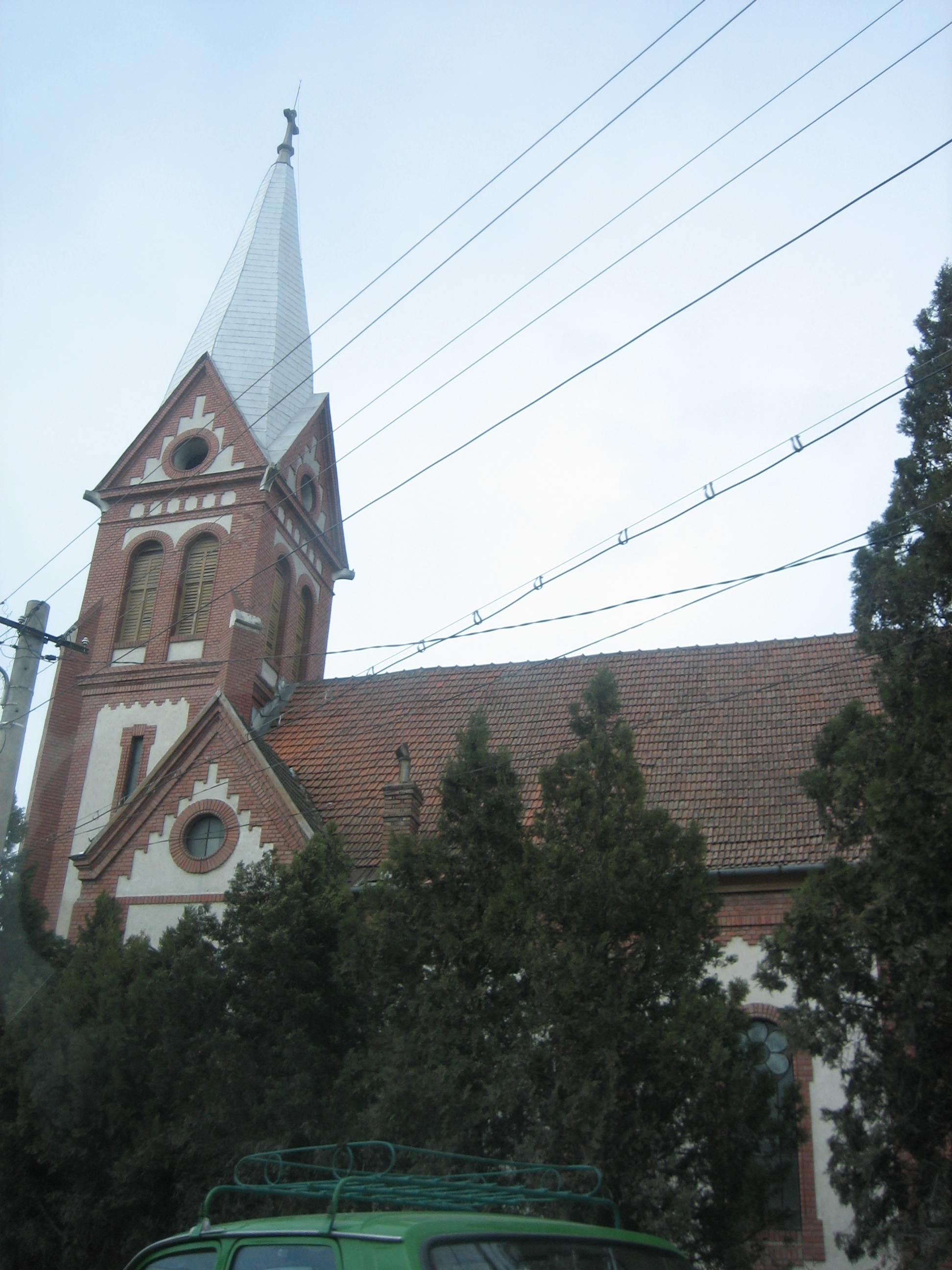 The Roman Catholic church in Luduş